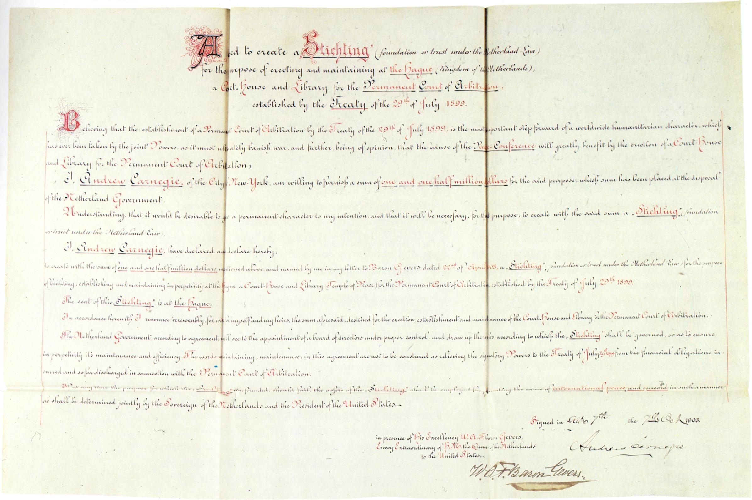 Carnegy Stichting charter of foundation.